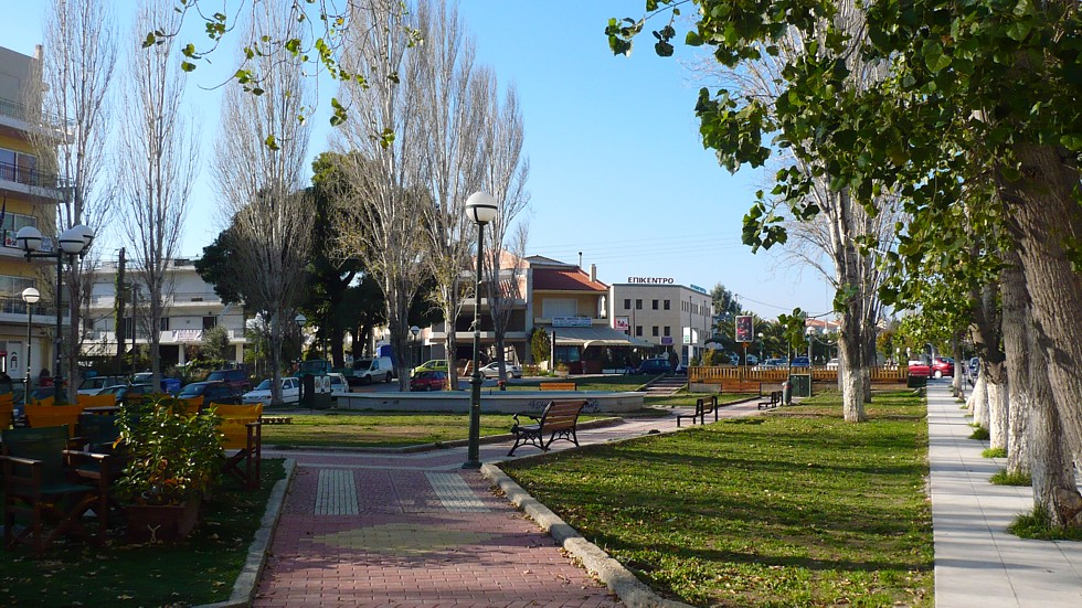 macedonia square